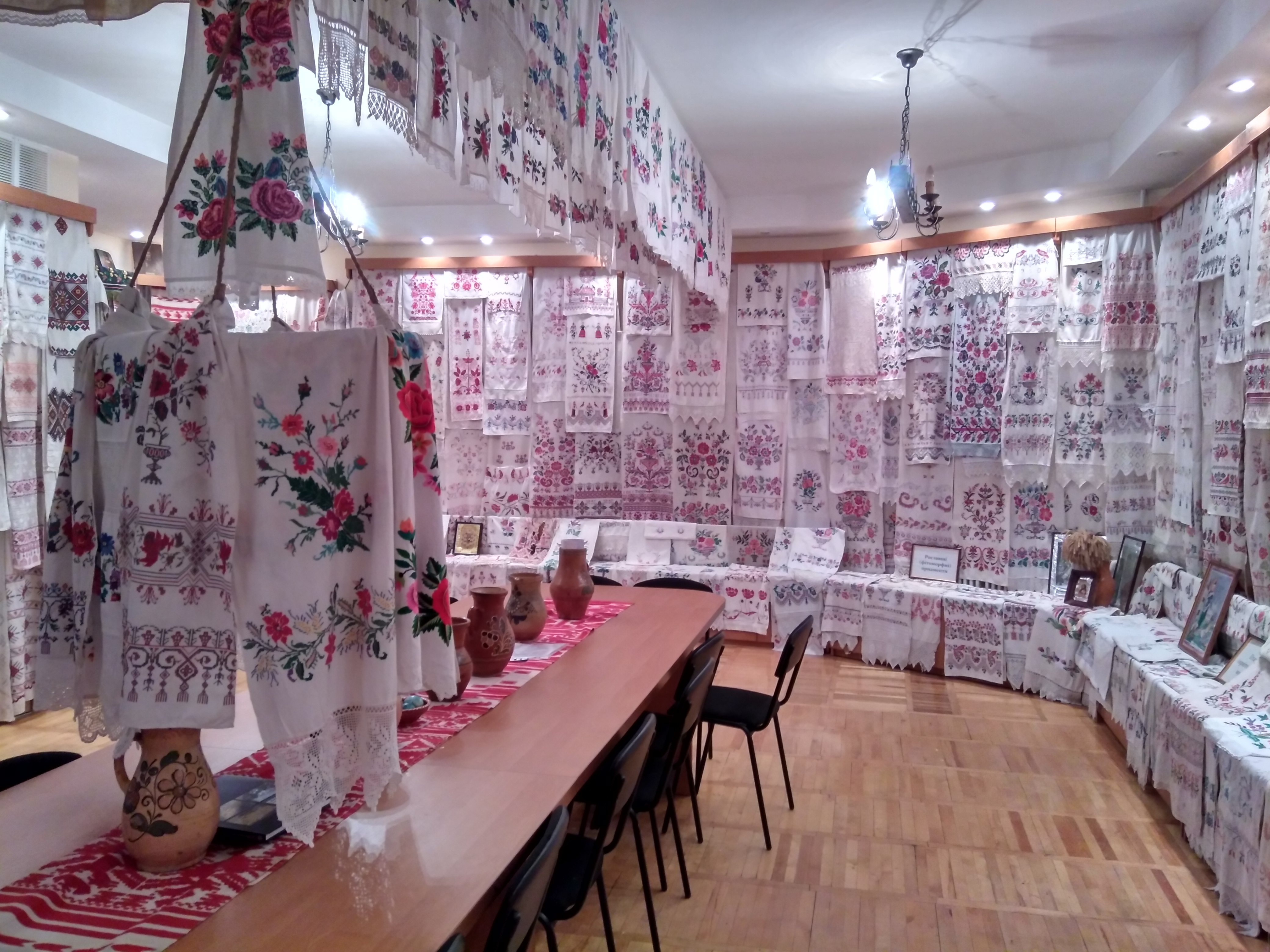 The Museum of Ukrainian Rushnyk in Cherkasy National University. Cherkasy, Ukraine